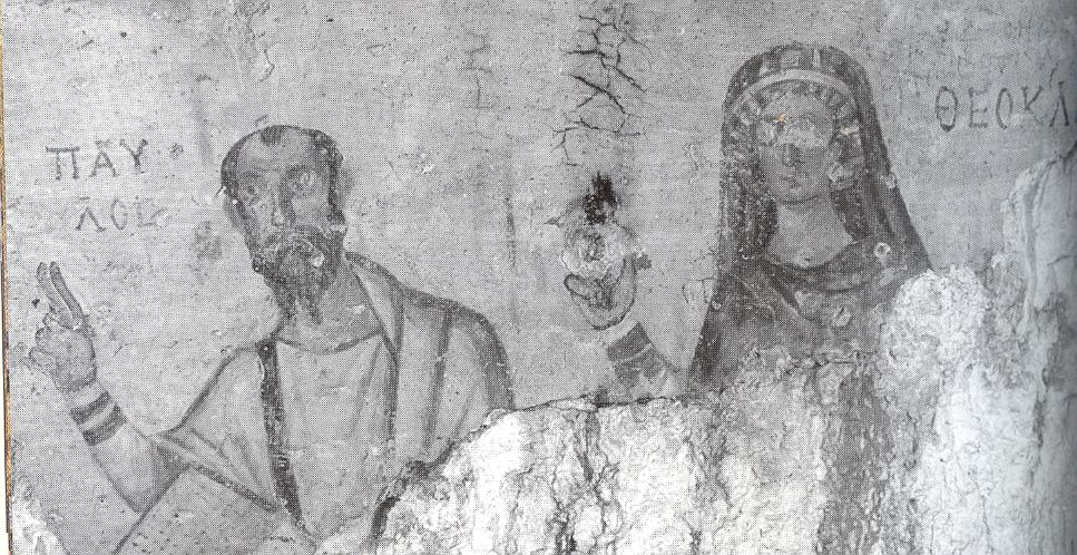 Fresco of Paul and Thecla from 6th century. Discovered in 1906 in the Cave of St. Thecla and St. Paul on the northern slope of Bülbül Dag, above the ruins of ancient Ephesus. They both have the same height and are therefore iconographically of equal importance. They both have their right hands raised in teaching gesture and are therefore iconographically of equal authority. But while the eyes and upraised hand of Paul are untouched, some later person scratched out the eyes and erased the upraised hand of Thecla. An earlier image in which Thecla and Paul were equally authoritative apostolic figures has been replaced by one in which the male is apostolic and authoritative and the female is blinded and silenced. (reference: John Dominic Crossan: In Search Paul)